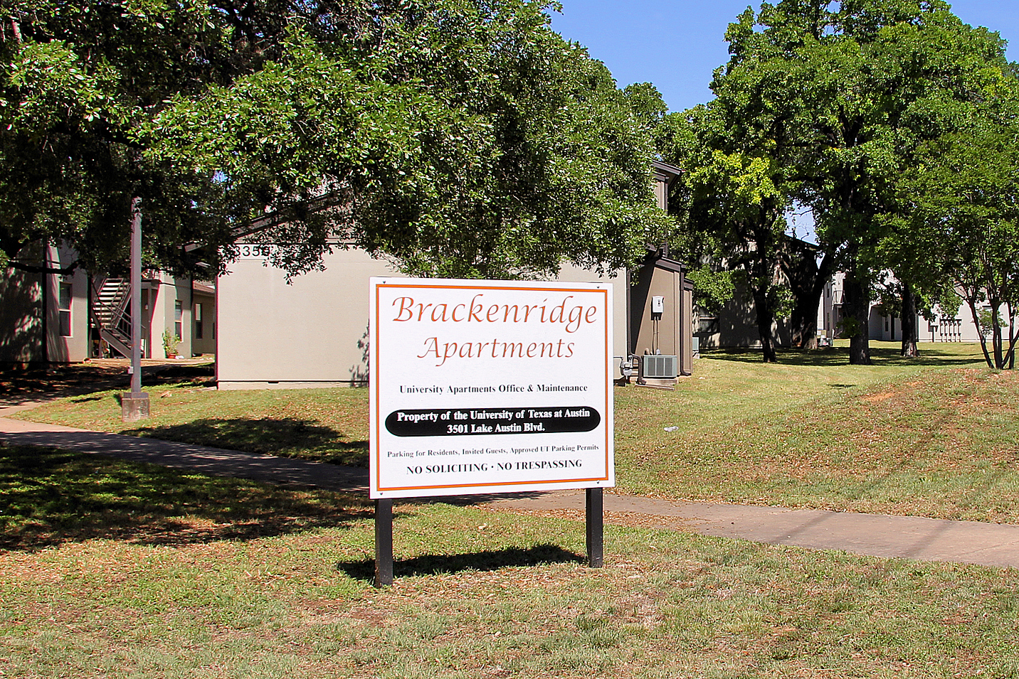 The University of Texas at Austin Brackenridge Apartment Complex, Austin, Texas, United States.